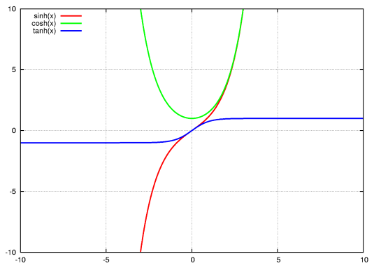 Hyperbolic sine (red line), cosine (green line) and tangent (blue line)